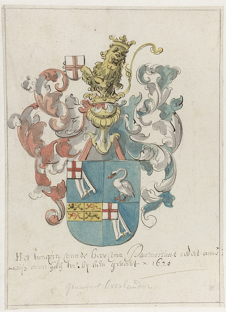 Coat of arms Volkert Overlander (1570-1630), knight, merchant, mayor of Amsterdam, lord of Purmerland and Ilpendam, owner of Ilpenstein